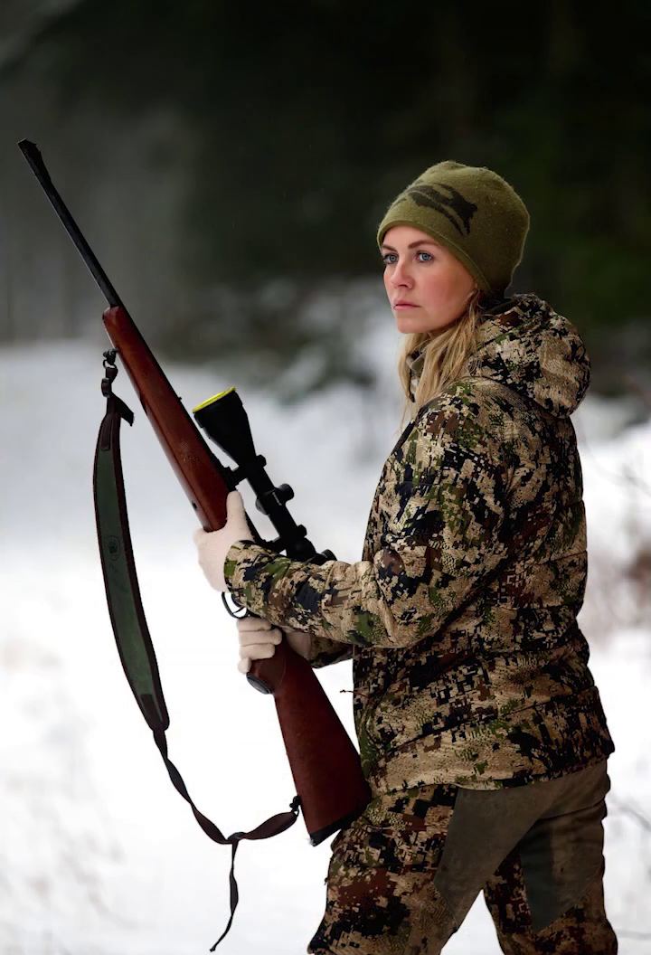 Danish huntress Stefanie Lea Paulsen with a rifle during a hunt